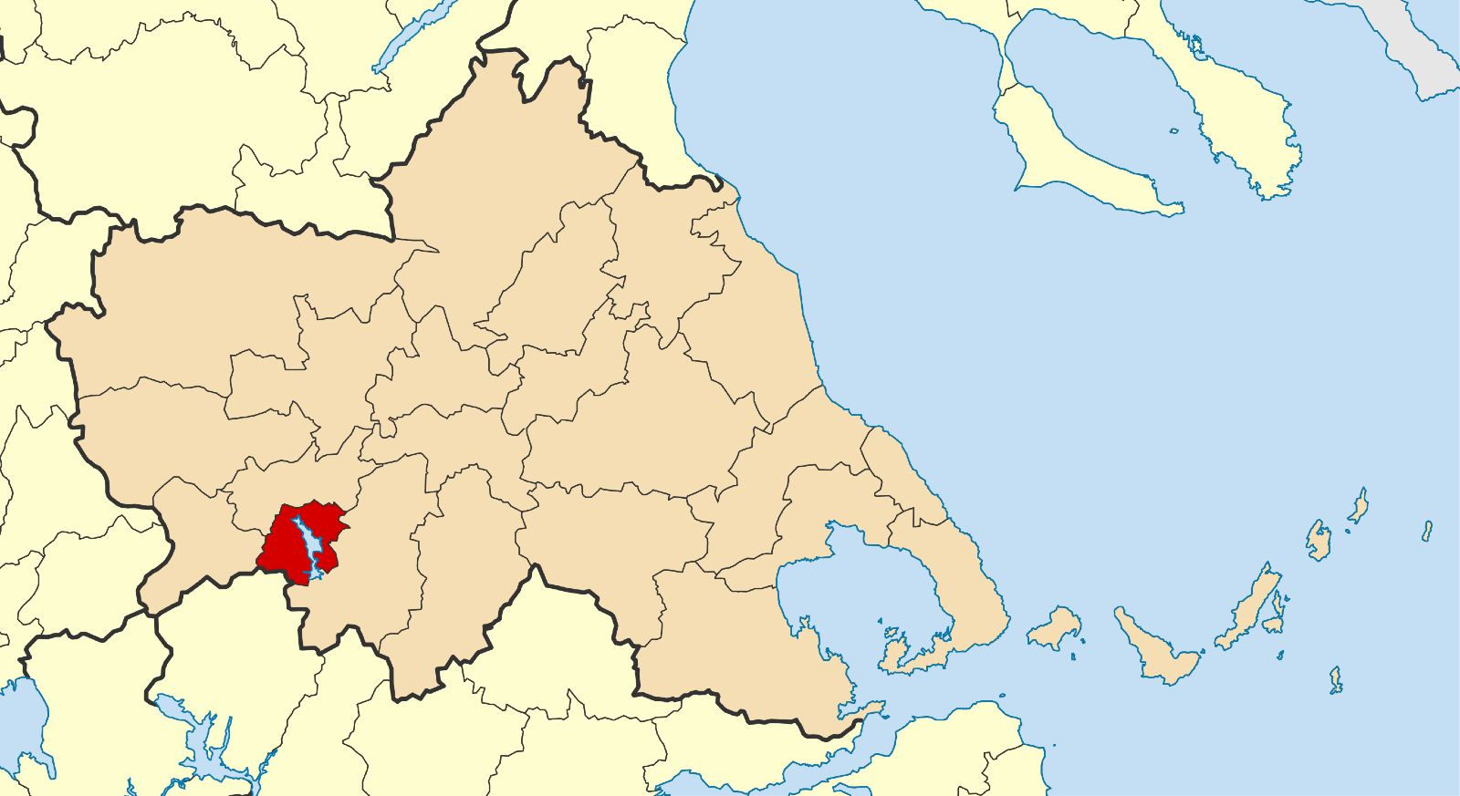 Locator map for Limni Plastira municipality in Greek region Thessaly (2011)